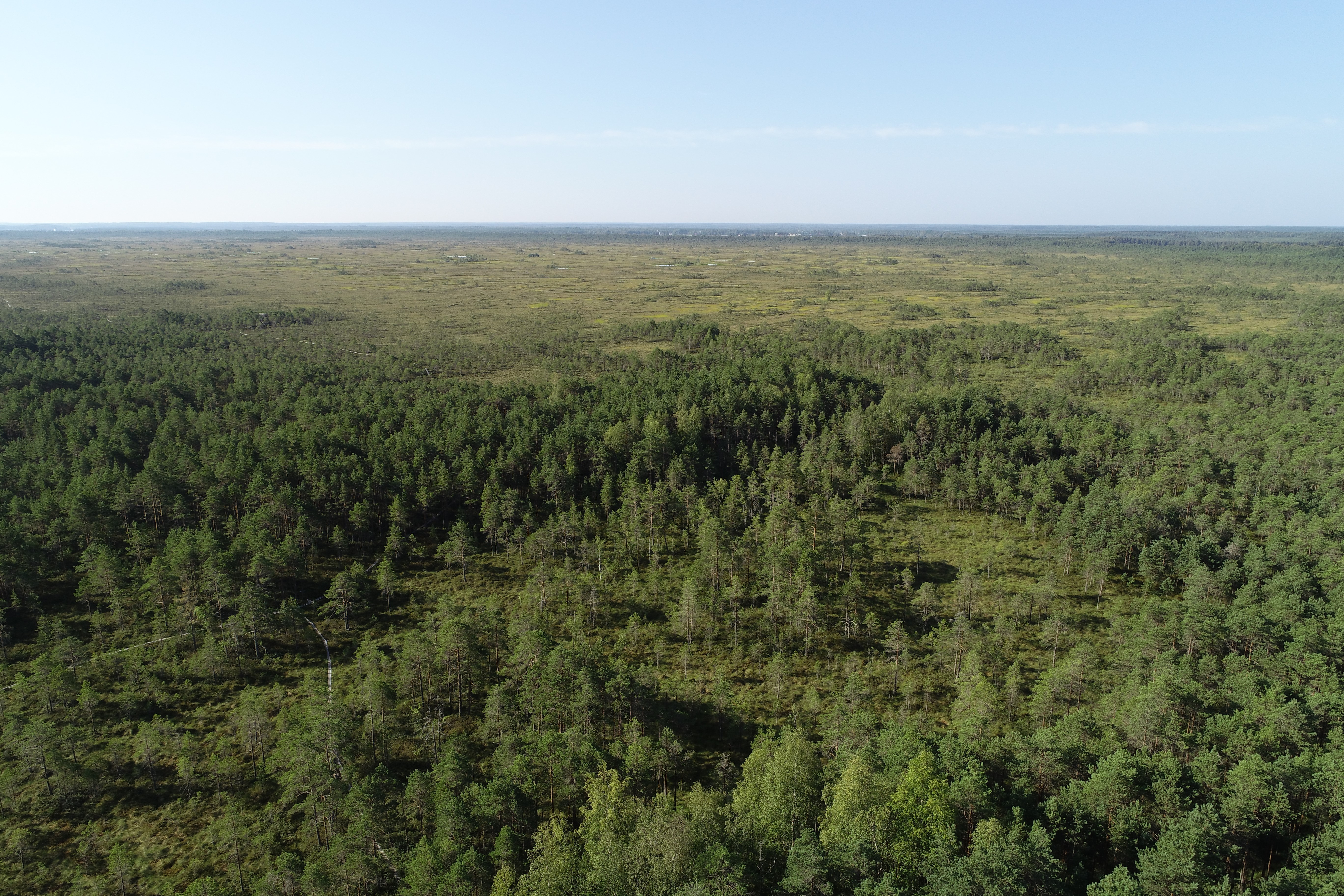 Photo from Isosuo, Huittinen, Finland.